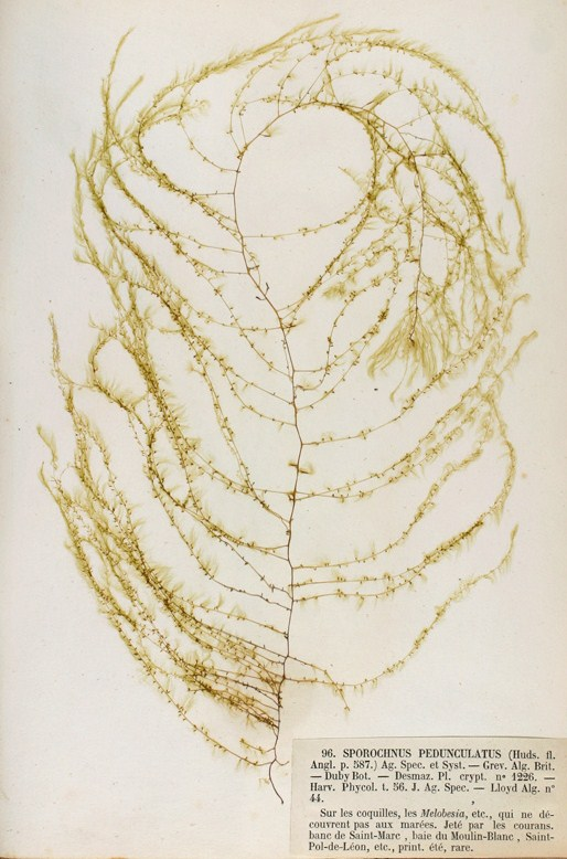 « Sporochnus pedunculatus » = Sporochnus pedunculatus